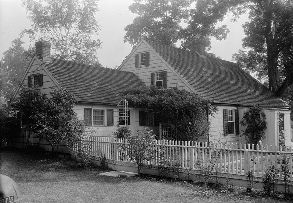 Black-and-white photograph of the exterior of Suydam House, Centerport, Suffolk County, New York. Courtesy of the Historic American Buildings Survey, Library of Congress, Washington, D.C.